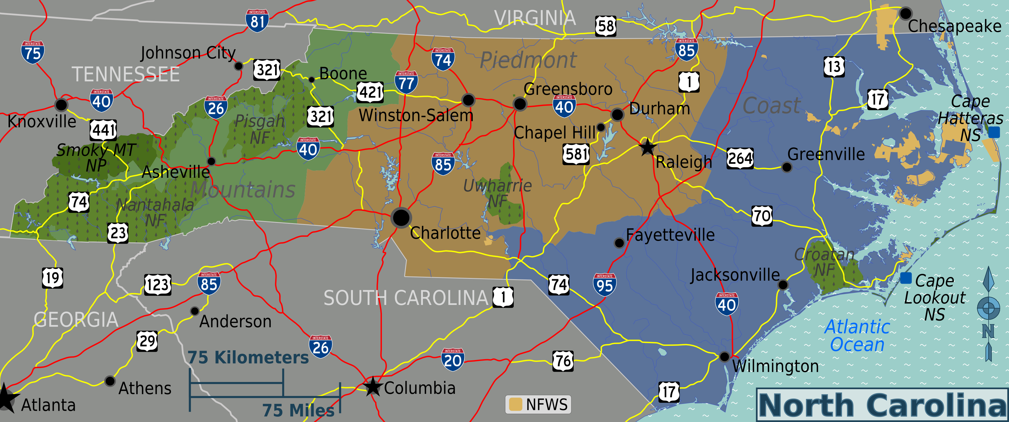 North Carolina regions map for use on Wikivoyage, English version